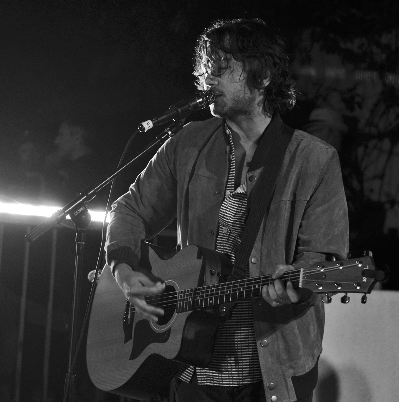 Bruce Driscoll live at the Sunset Marquis